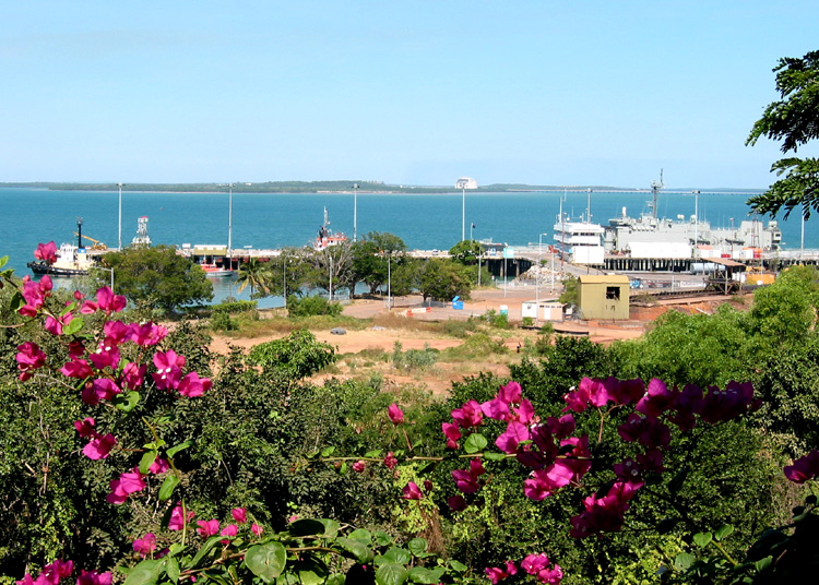 Wharves of Port Darwin, Darwin, NT.